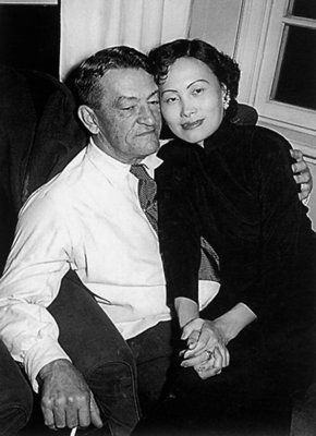 Chennult was married in 1947 in Shanghai, China. 陳香梅與陳納德年紀相差32歲，但鶼鰈情深。他們1947年底在上海結婚，1950年定居美國。